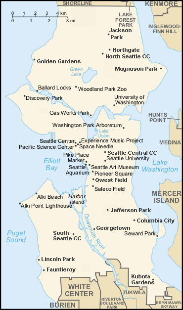 Map of Seattle. Based on map created by ShadowDragon, which was in turn based on maps from the U.S. Census Bureau's website and the CIA World Factbook's map style. More places labeled (mostly in the north and south ends of town). Updated "Seahawks Stadium" to "Qwest Field". Unfortunately, couldn't perfectly match fonts.